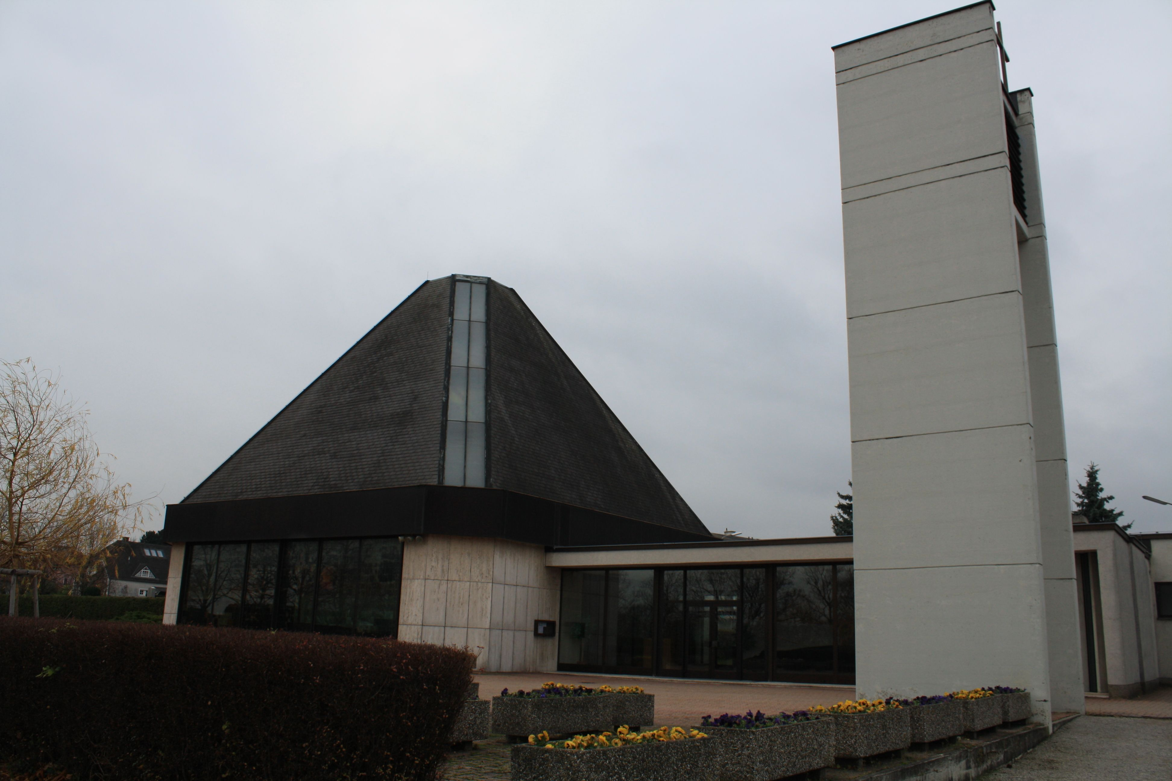 Cemetery in Perchtoldsdorf in Lower Austria